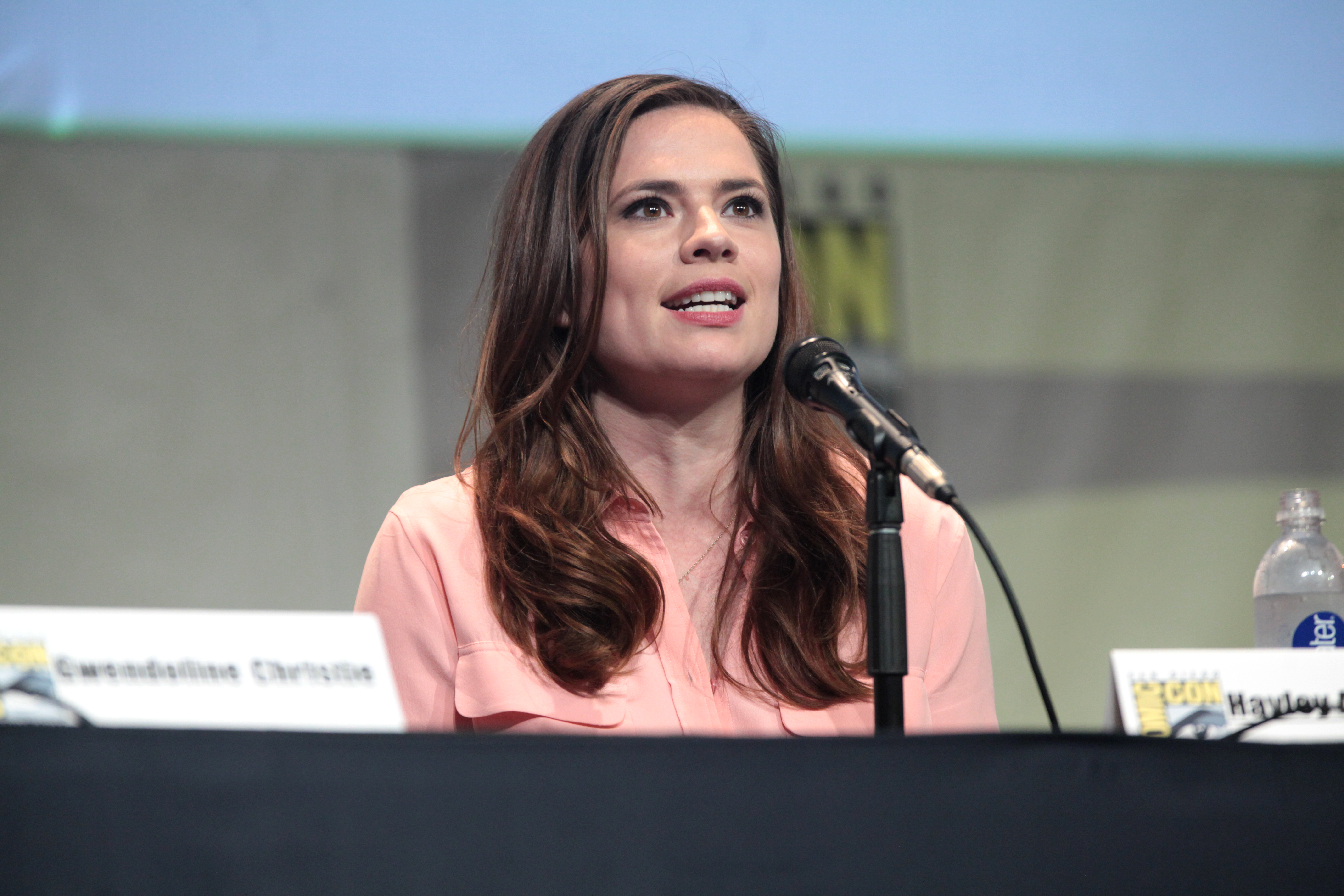 Hayley Atwell speaking at the 2015 San Diego Comic Con International, for "Entertainment Weekly: Women Who Kick Ass", at the San Diego Convention Center in San Diego, California.